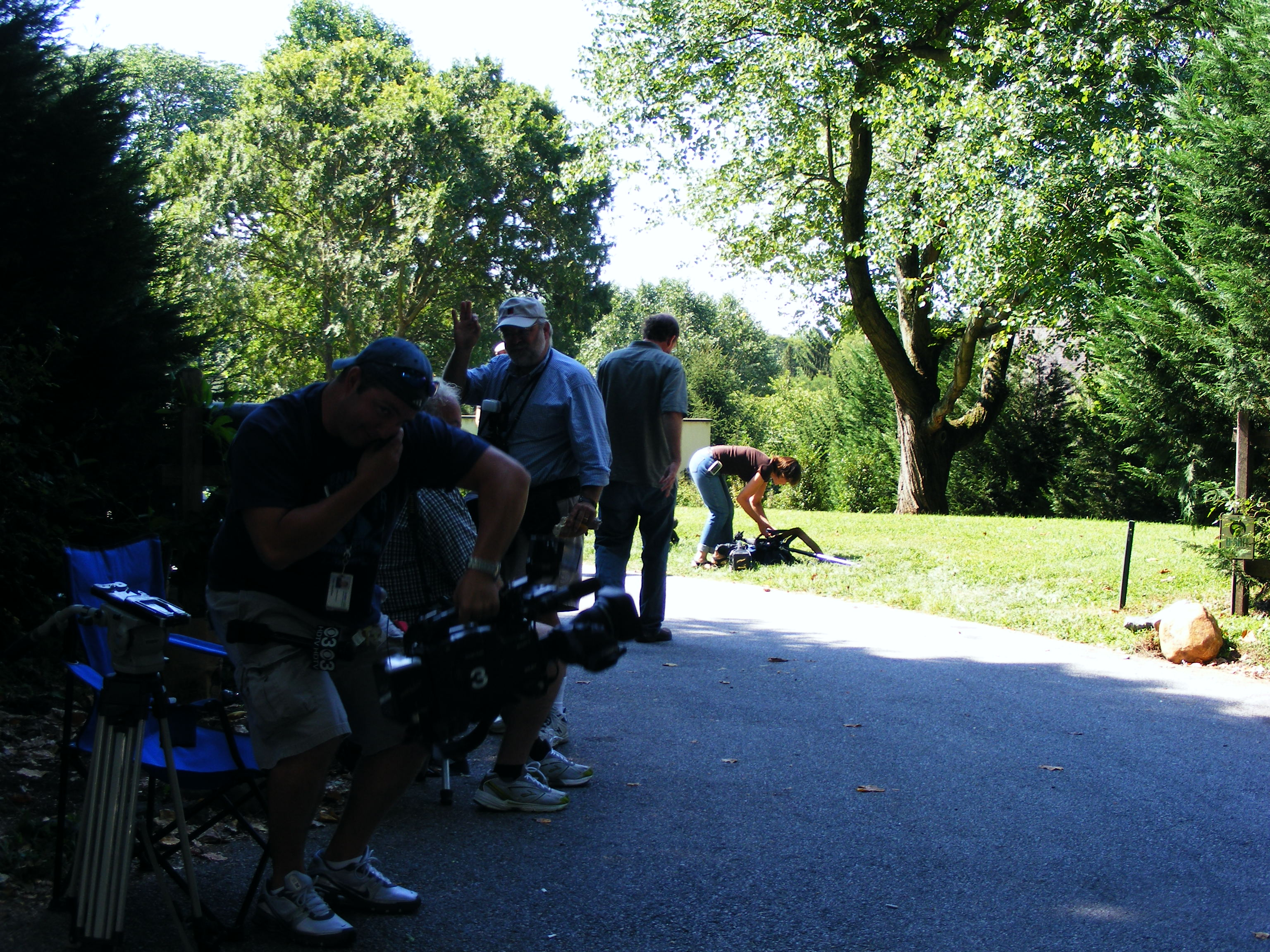 Media near where Joe Biden was residing before the announcement of him being the presumed Democratic nominee for Vice President.